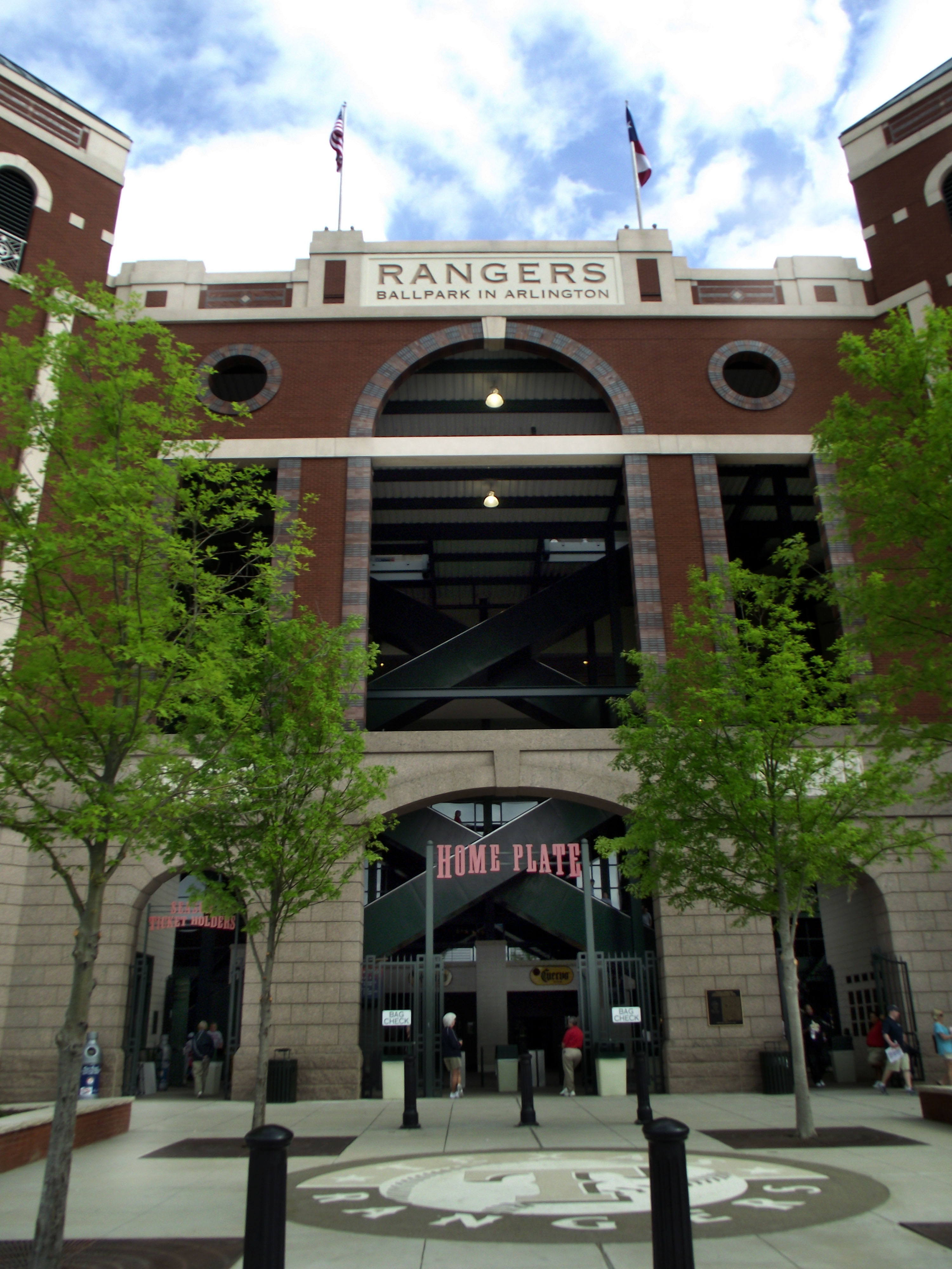 The Home Plate enterance to the Rangers Ball Park in Arlington.